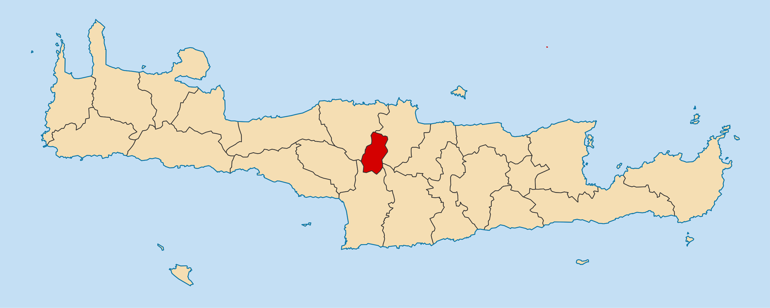 Locator map for Anogia municipality in Greek region Crete (2011)